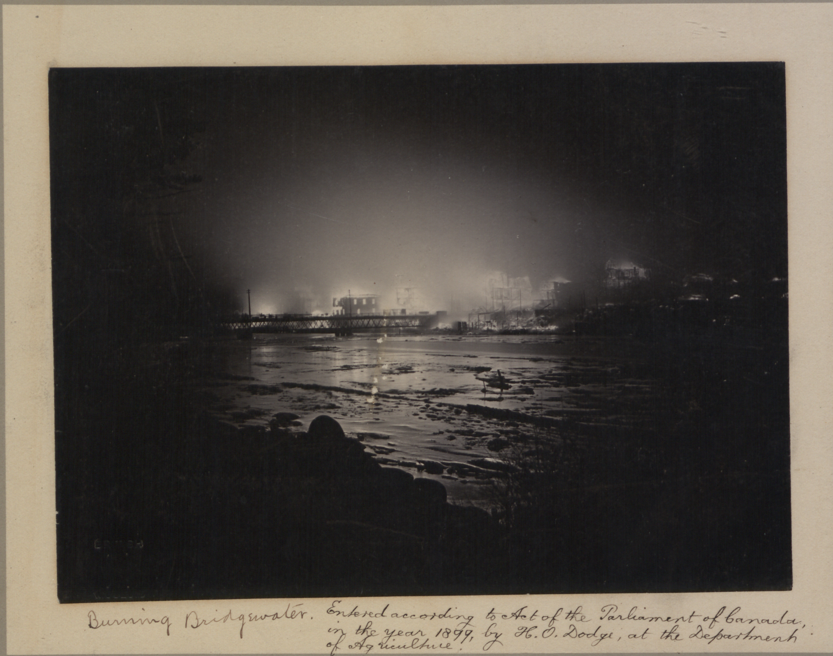 Burning Bridgewater.